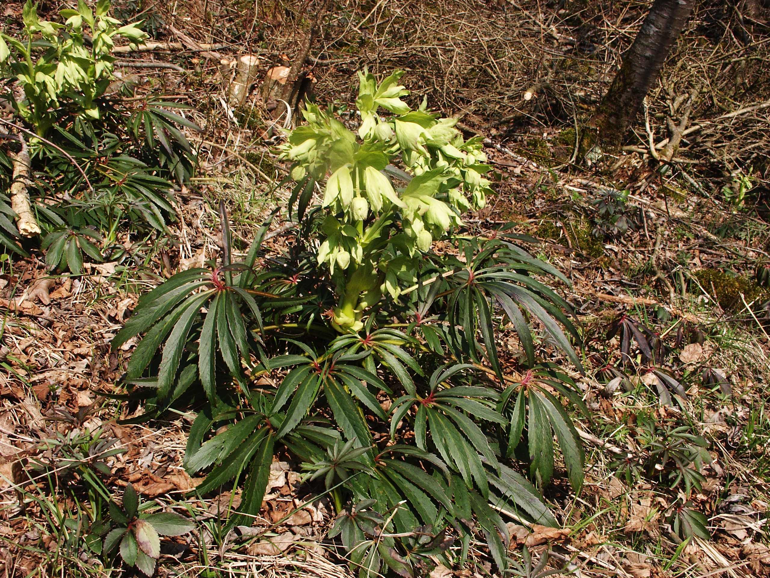 Helleborus foetidus, Hohenloher Land, Germany